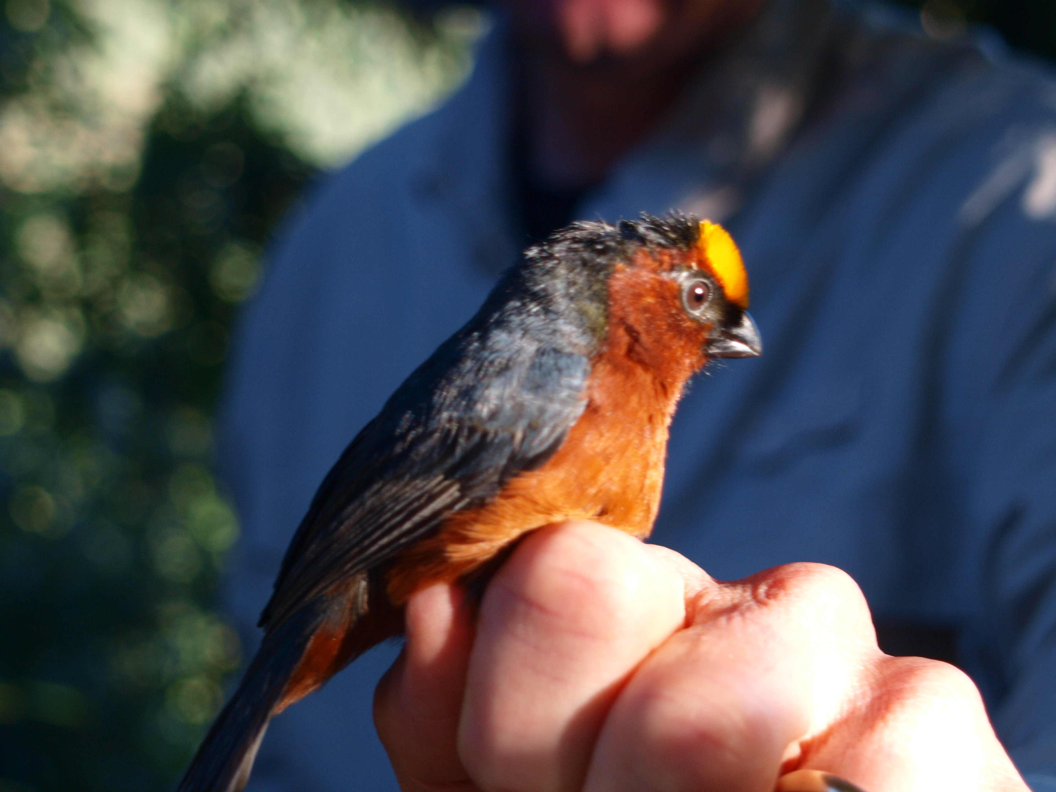 A Plushcap being held in the photo grip